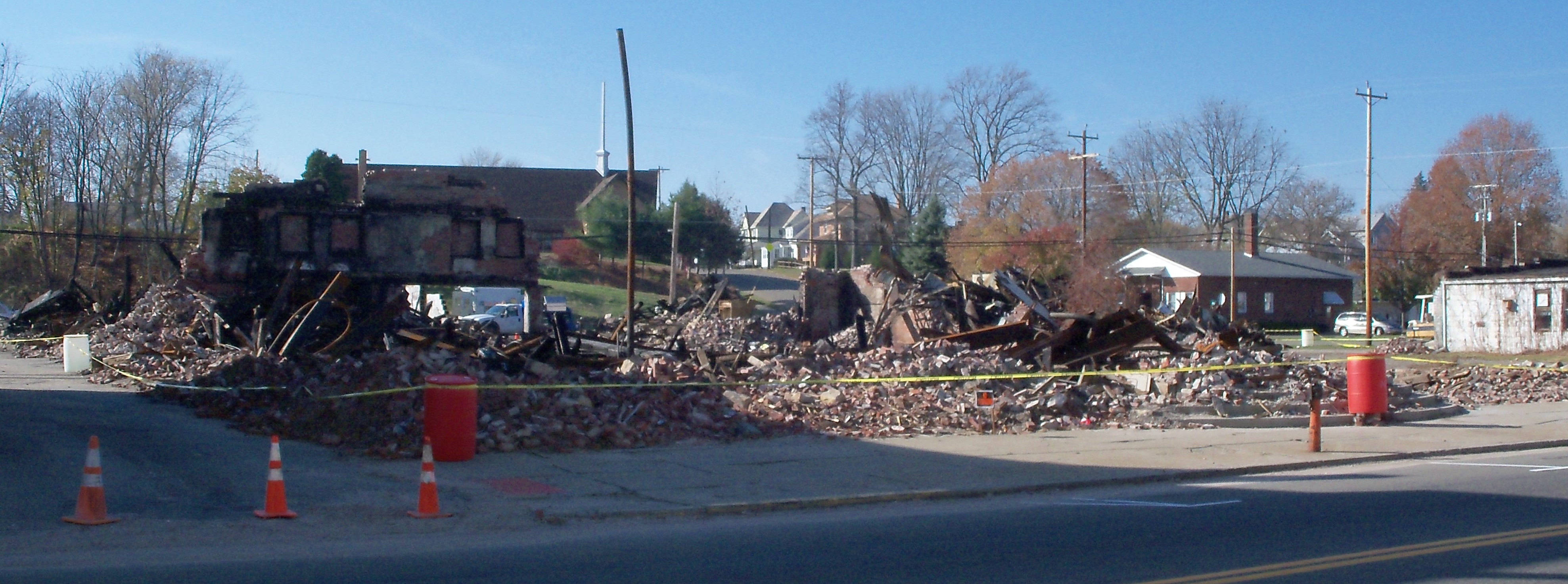 Garver Brothers Store, a building on the National register of historic places in Strasburg, Ohio destroyed by arson October 2010.